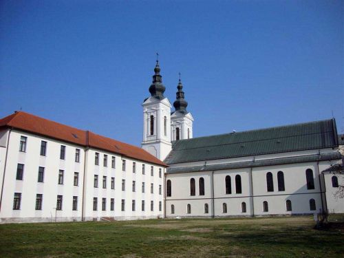 Franciscan monastery and church,Tolisa